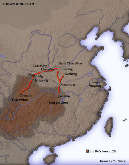 The Longzhong Plan was the grand strategy proposed by Zhuge Liang for Liu Bei to conquer north China. By summer 219 Liu Bei controlled the provinces of Yi and Jing, the prerequisites for carrying out the plan. Shown in this map is the two-pronged offensive originally envisaged by Zhuge Liang. The right wing of the offensive was led by Guan Yu in autumn 219. After Guan Yu's defeat and the loss of Jing province, the left wing of the offensive was carried out in modified form by Zhuge Liang as the Northern Expeditions between 227 and 234.